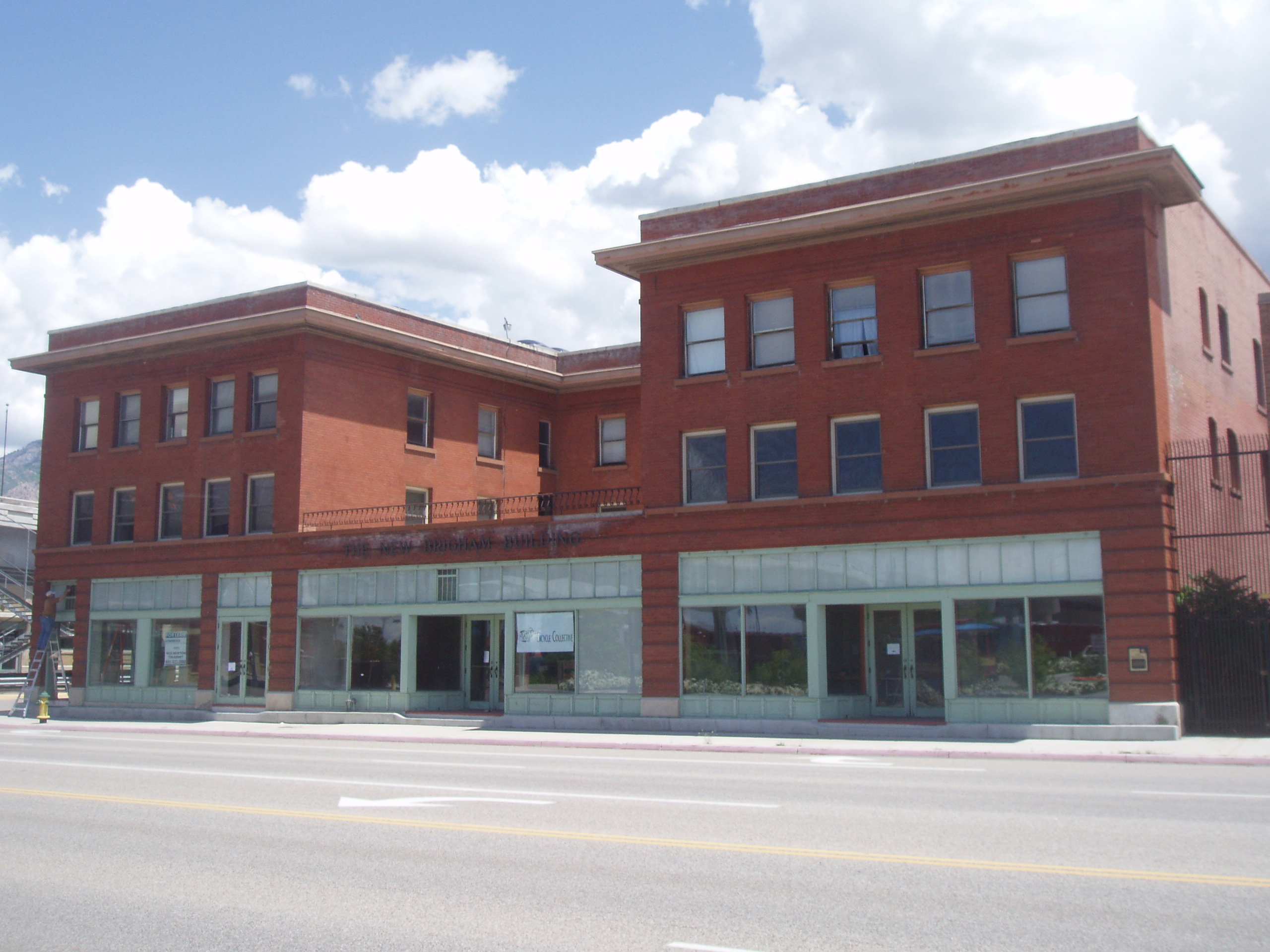 The New Brigham Hotel, a historic building in Ogden, Utah, United States.